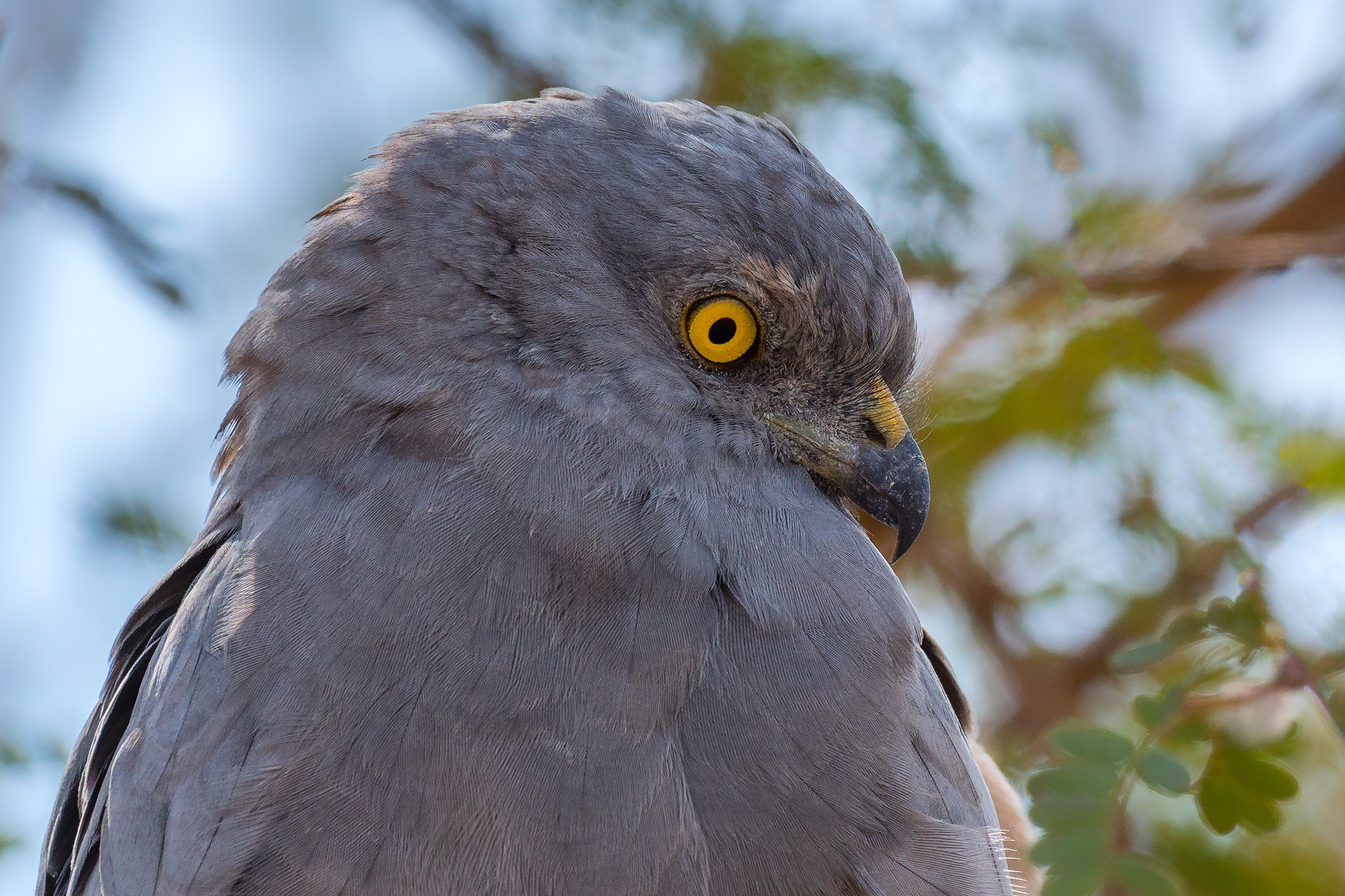 Montagu's Harrier Male, at Rollapadu Wildlife Sanctuary, photographed by Prasanna Kumar Mamidala